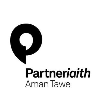 PartnerIAITH Aman Tawe logo